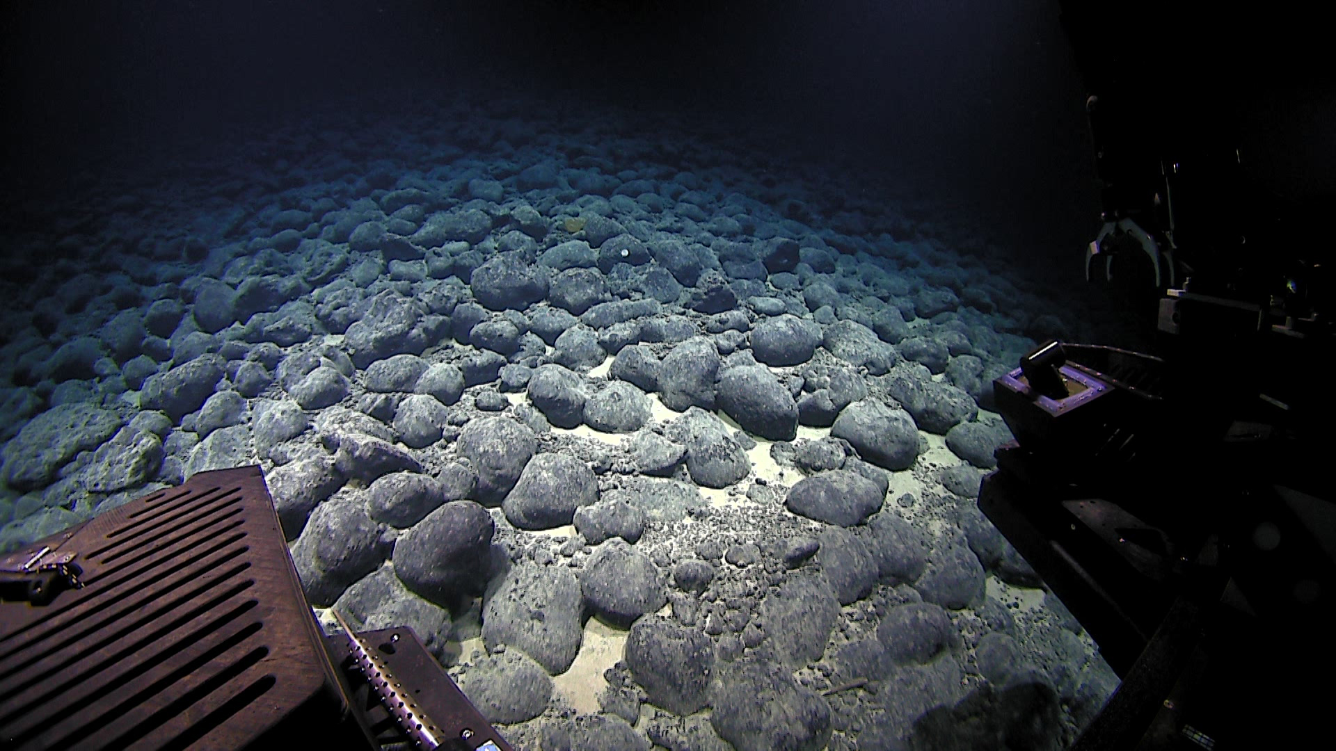 The geology highlight of the dive at Mozart Seamount was a field of nearly spherical intact “pillow balls” at approxiamtely 3,765 meters.